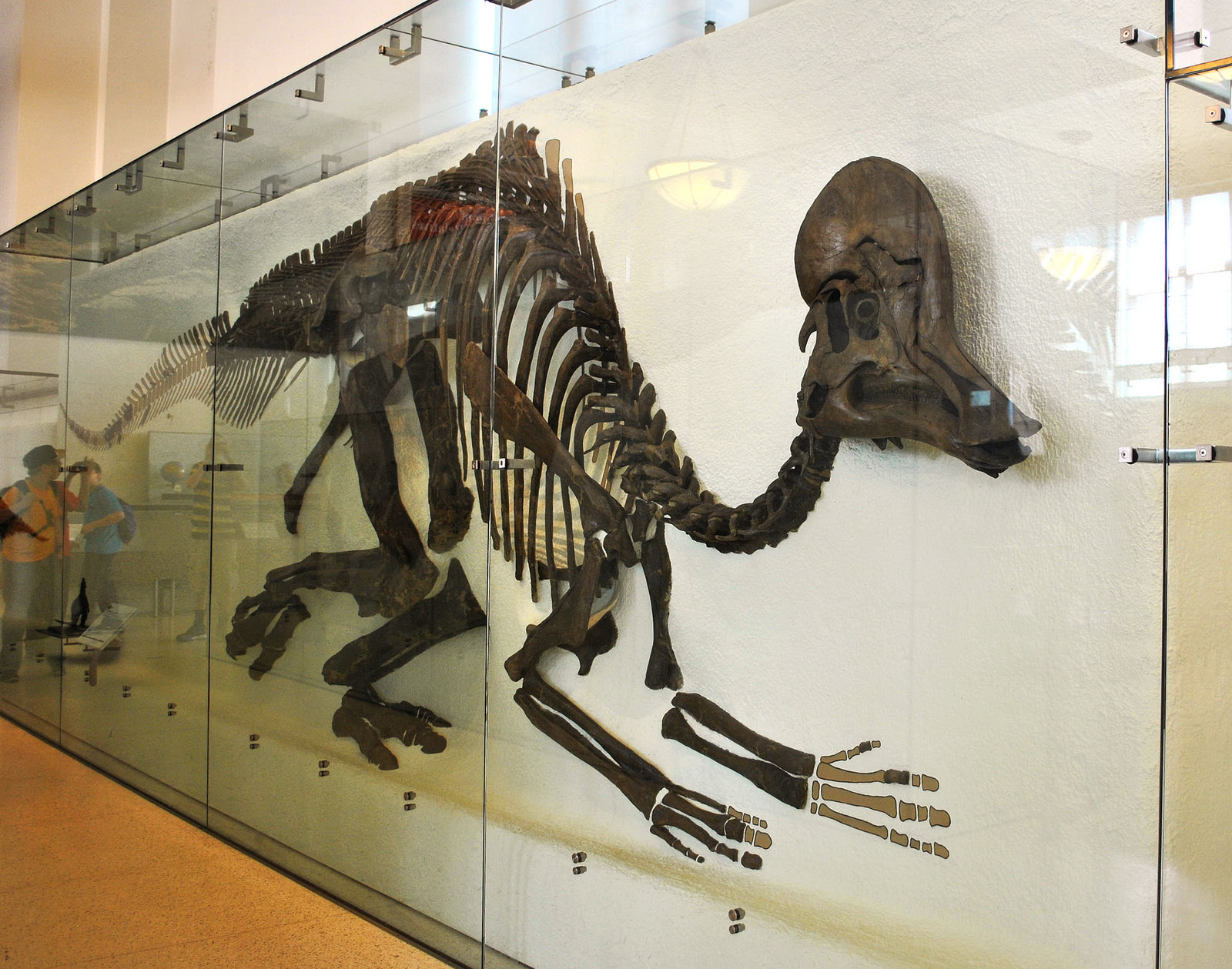 Hall of Ornithischian Dinosaurs